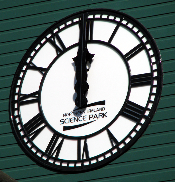 Pump House at Thompson Graving Dock [detail] [2] Detail of the clock face seen in 783544. The clock face sports the Northern Ireland Science Park logo as the Pump House is now, like the Thompson Graving Dock, part of the Northern Ireland Science Park